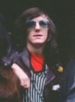 Musician Frank Farrell pictured outside the Hotel Hirschen Zurich in November 1969, photo cropped from a shot of the band Breakthru